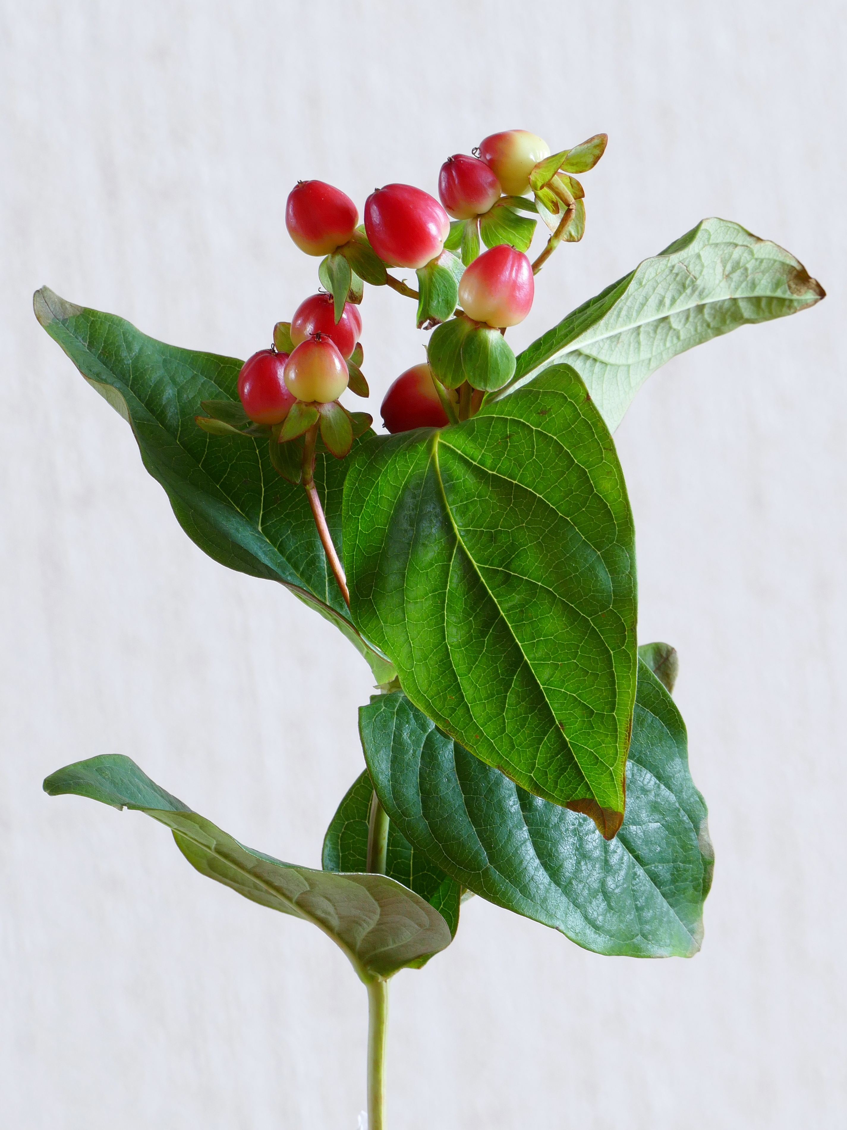 Hypericum androsaemum L. Immature fruits of the cultivar of Shrubby St. John's Wort.